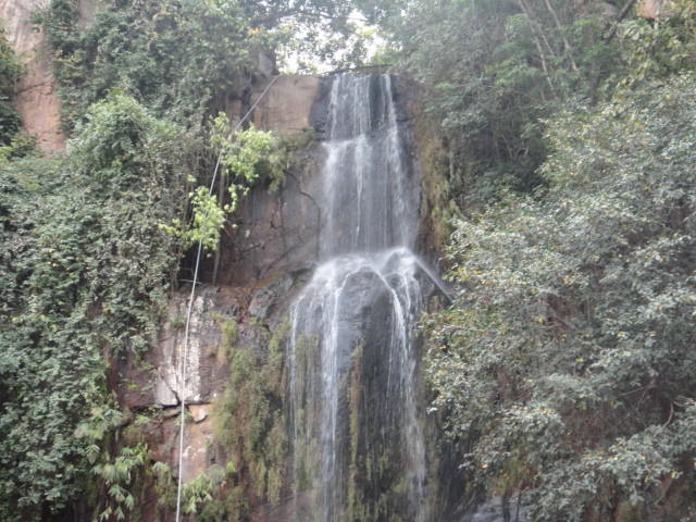 Waterfall